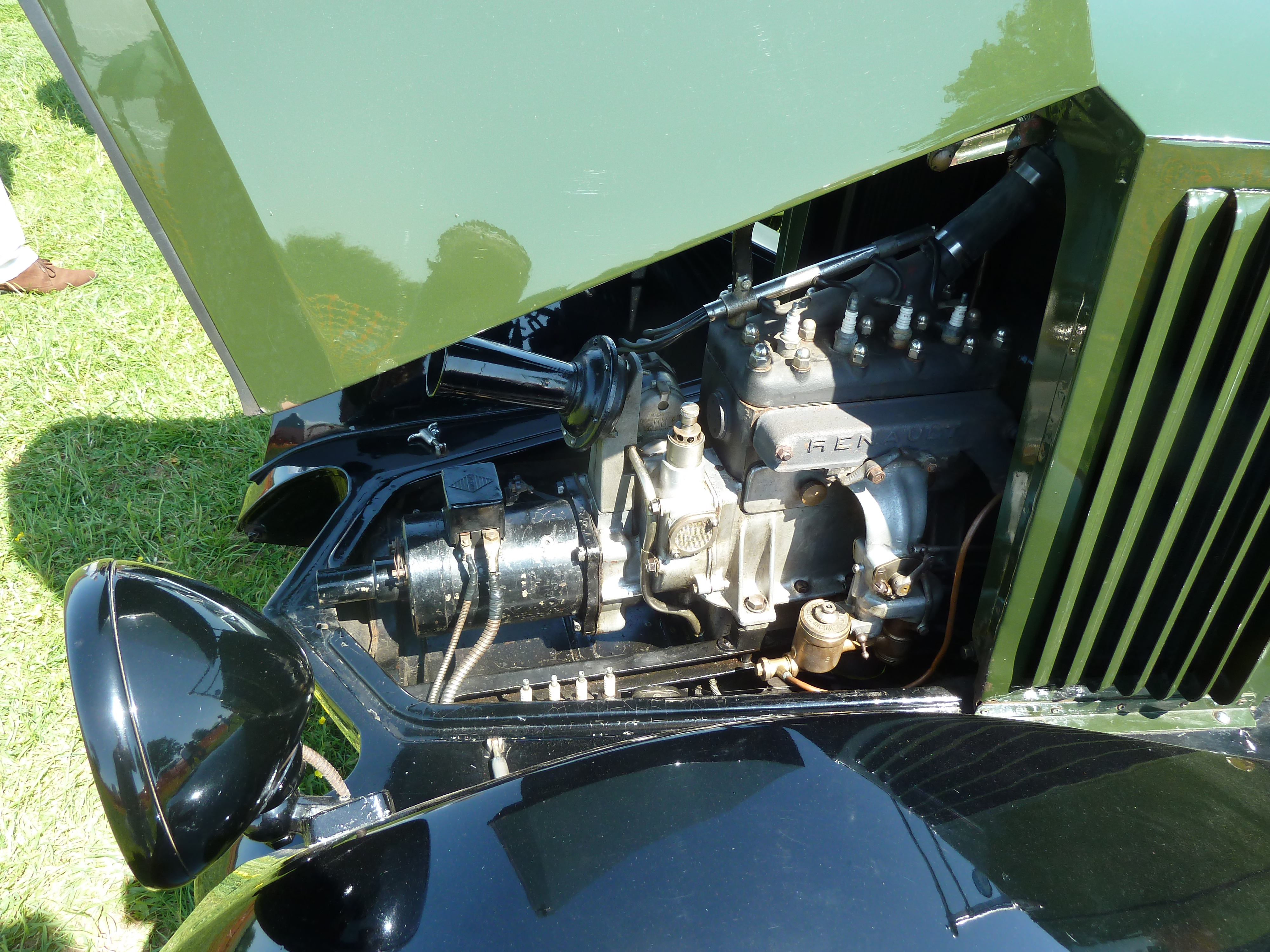 1926 Renault engine Cophill Farm vintage rally, near Chepstow, 2012.